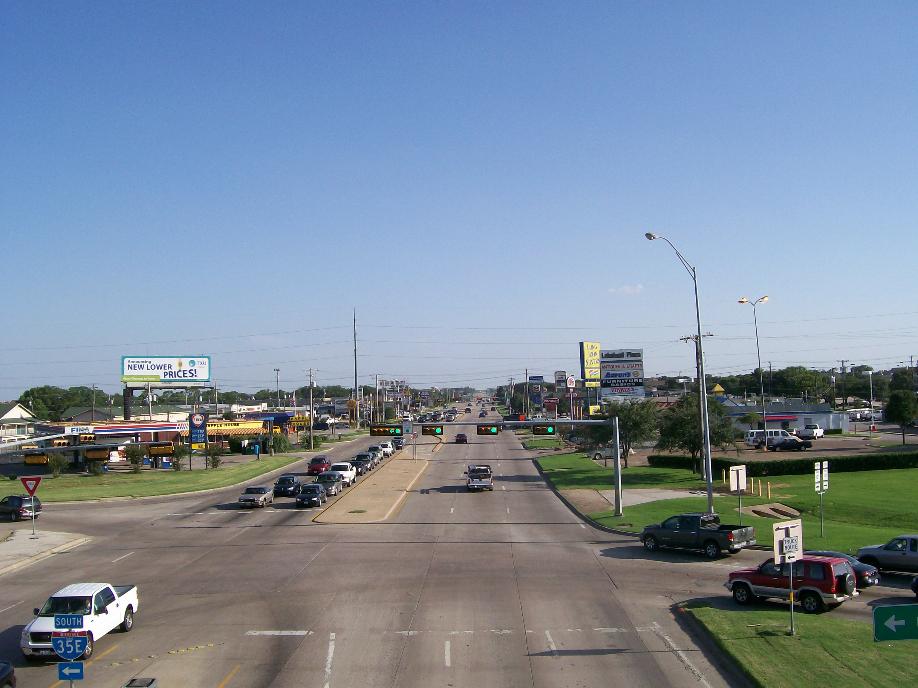 Texas 121 Business looking south from the IH-35E southbound overpass.